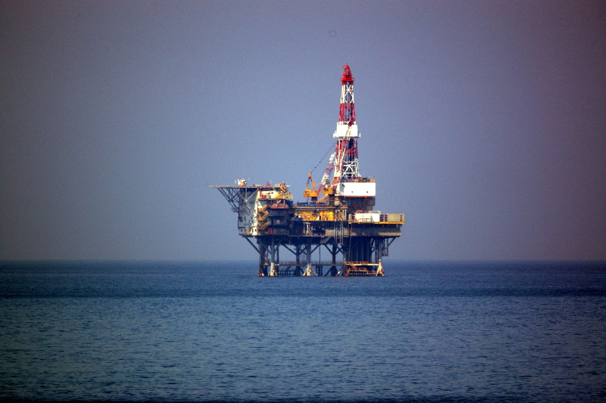 Iwafune-oki is Japans only offshore oil and gas field.